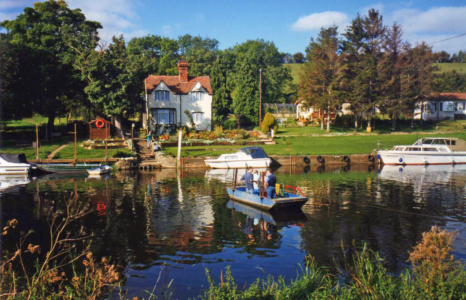 The Hampton Ferry, looking west across the river.